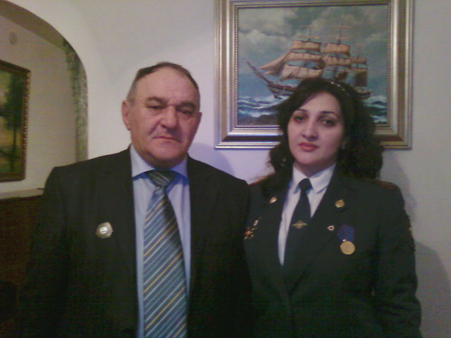 (title:Khamkhoev and daughter Dali) Description: Personal photos